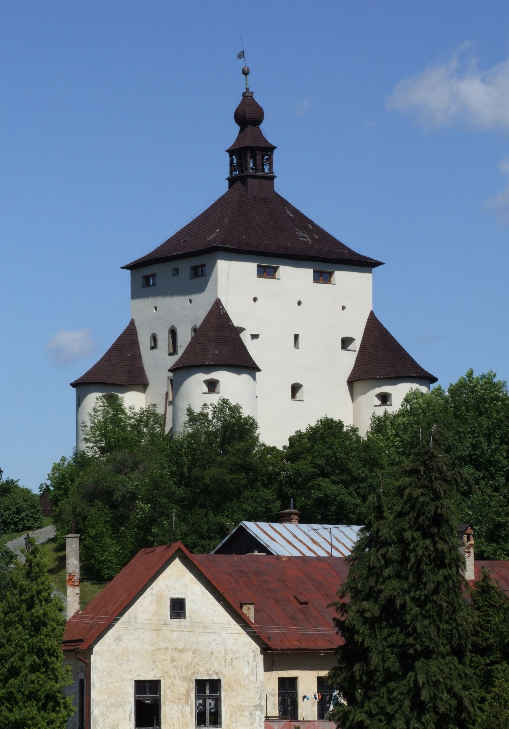 Banská Štiavnica - new castle (nový zámok)